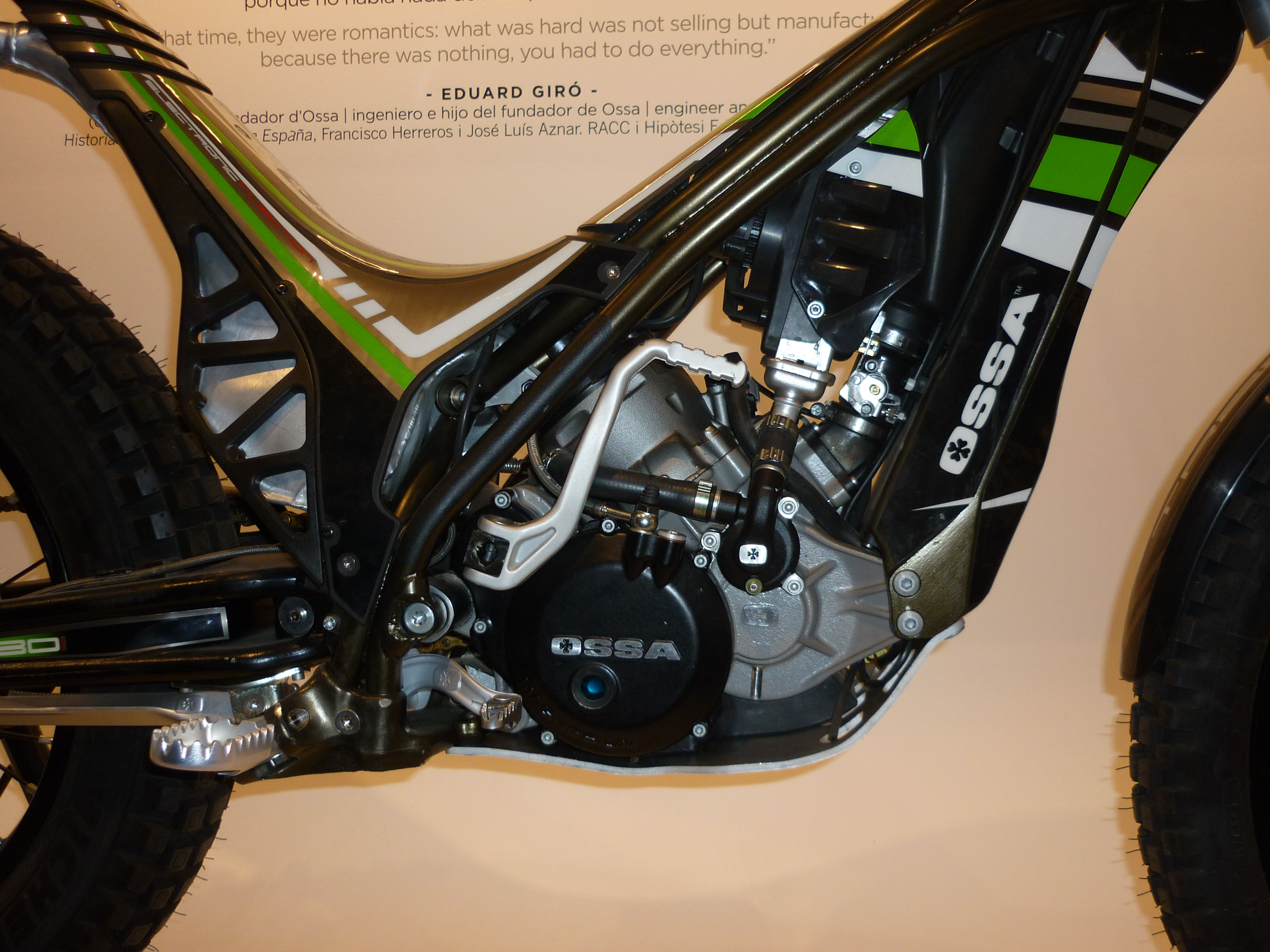 The engine of an Ossa TR 280i (272,2 cc), 2015